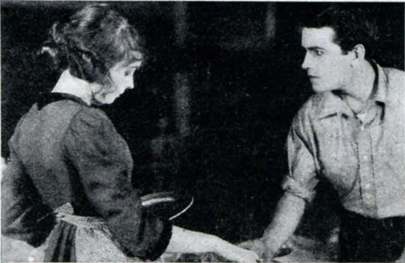 Scene from the American drama film Way Down East (1920), on page 40 of the January 1921 Photoplay magazine.